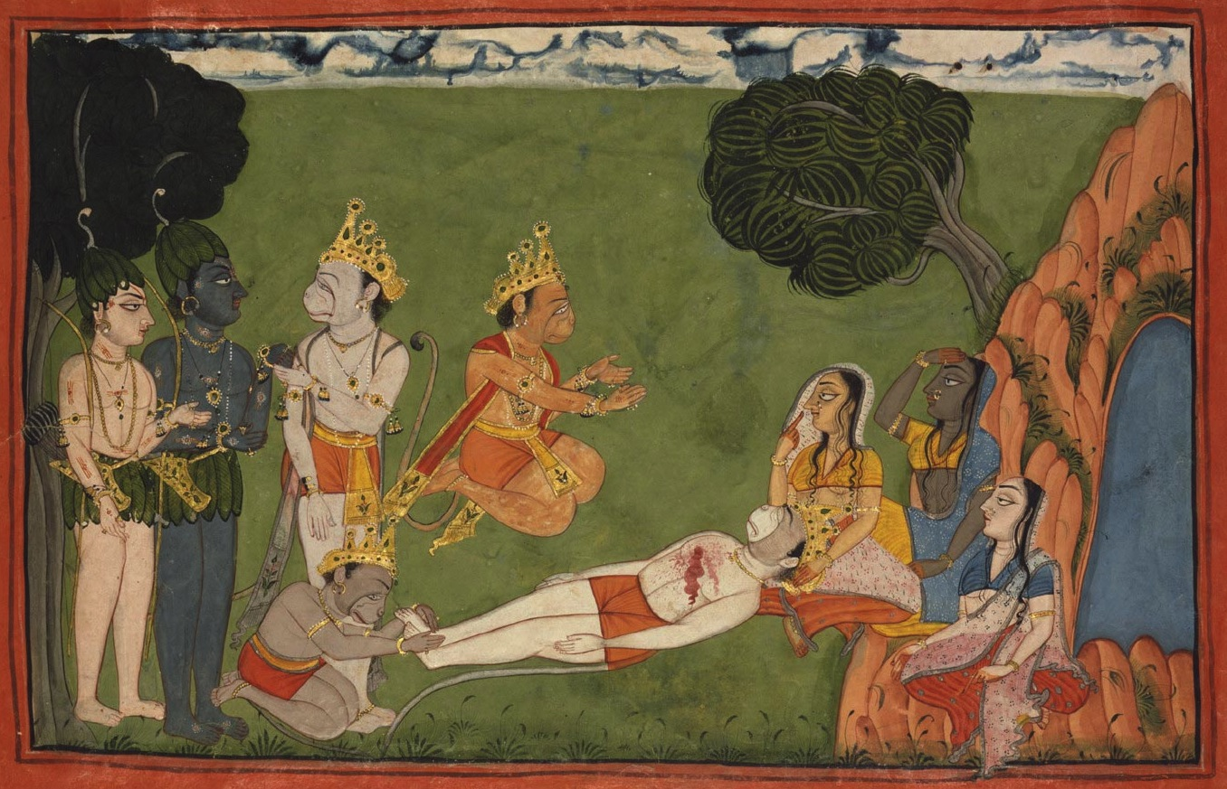 "The Death of Valin and Tara's Discourse Page from a dispersed series of the Ramayana Made in Himchal Pradesh, India or Jammu and Kashmir, India c. 1720 Artist/maker unknown, India, Himachal Pradesh or Jammu and Kashmir Opaque watercolor, gold, and silver-colored paint on paper 8 1/4 x 12 1/8 inches (21 x 30.8 cm) 2004-149-30 Alvin O. Bellak Collection, 2004 Label This scene from the Ramayana series is the climax of the struggle for rule of the monkey kingdom. Rama confronts Sugriva's brother, Valin, the legitimate king of the monkeys, and kills him. This painting depicts the moment after the fight when Valin lies dying in the arms of his wife Tara. Their son Angada grasps his father's feet and Hanuman, the monkey general, kneels nearby. Sugriva, now mourning his brother and feeling intense guilt at his role in the death, stands to the side. He talks with Rama and Lakshmana, who wear leaf garments to show they still live in forest exile. The long text on the reverse of the page recounts Tara's lament that Rama, born to uphold world order, has sinned against it in his unjust murder of her husband."